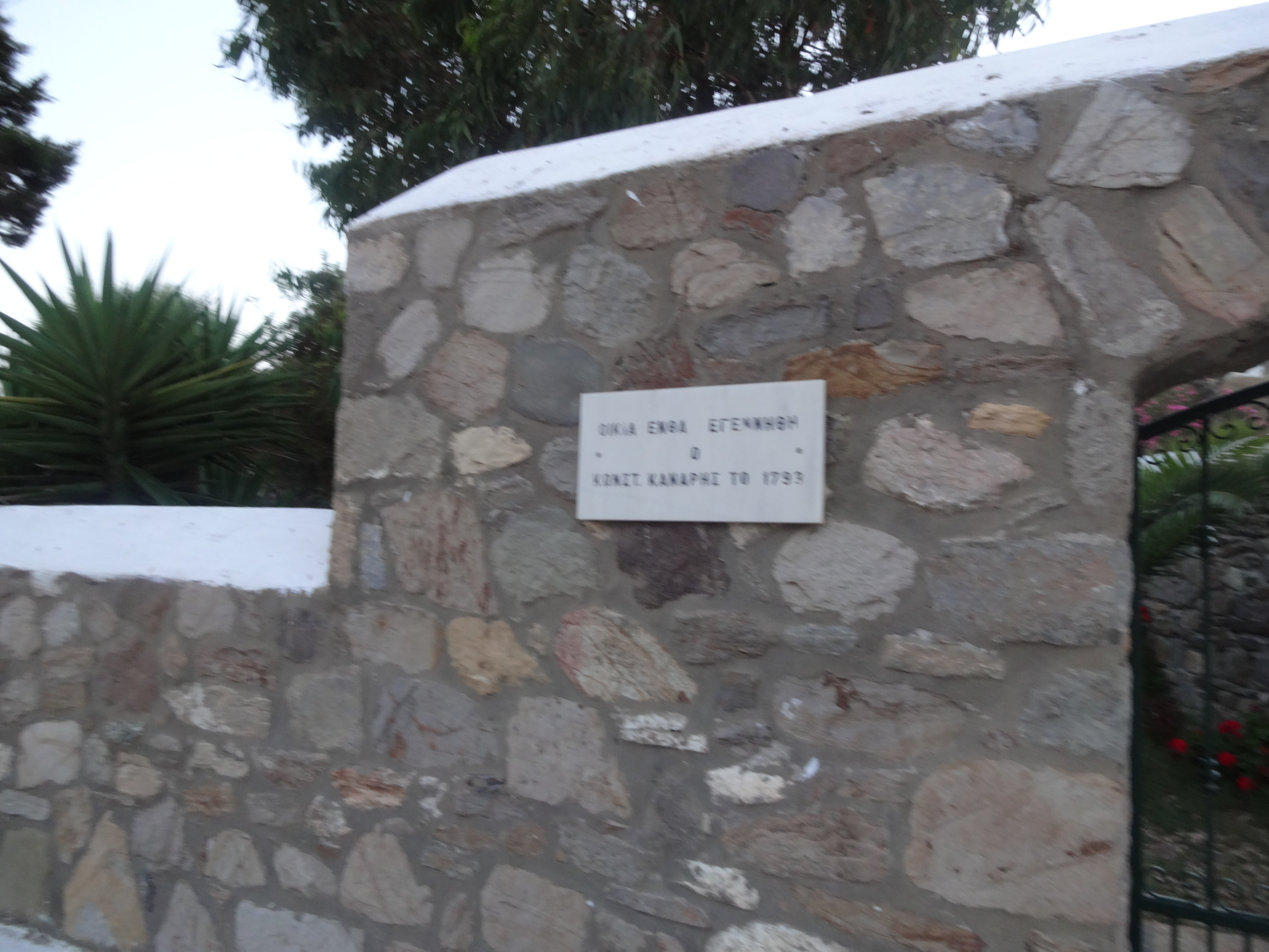 Island of Psara, Greece. Memorial plate at the place of Constantine Kanaris home.